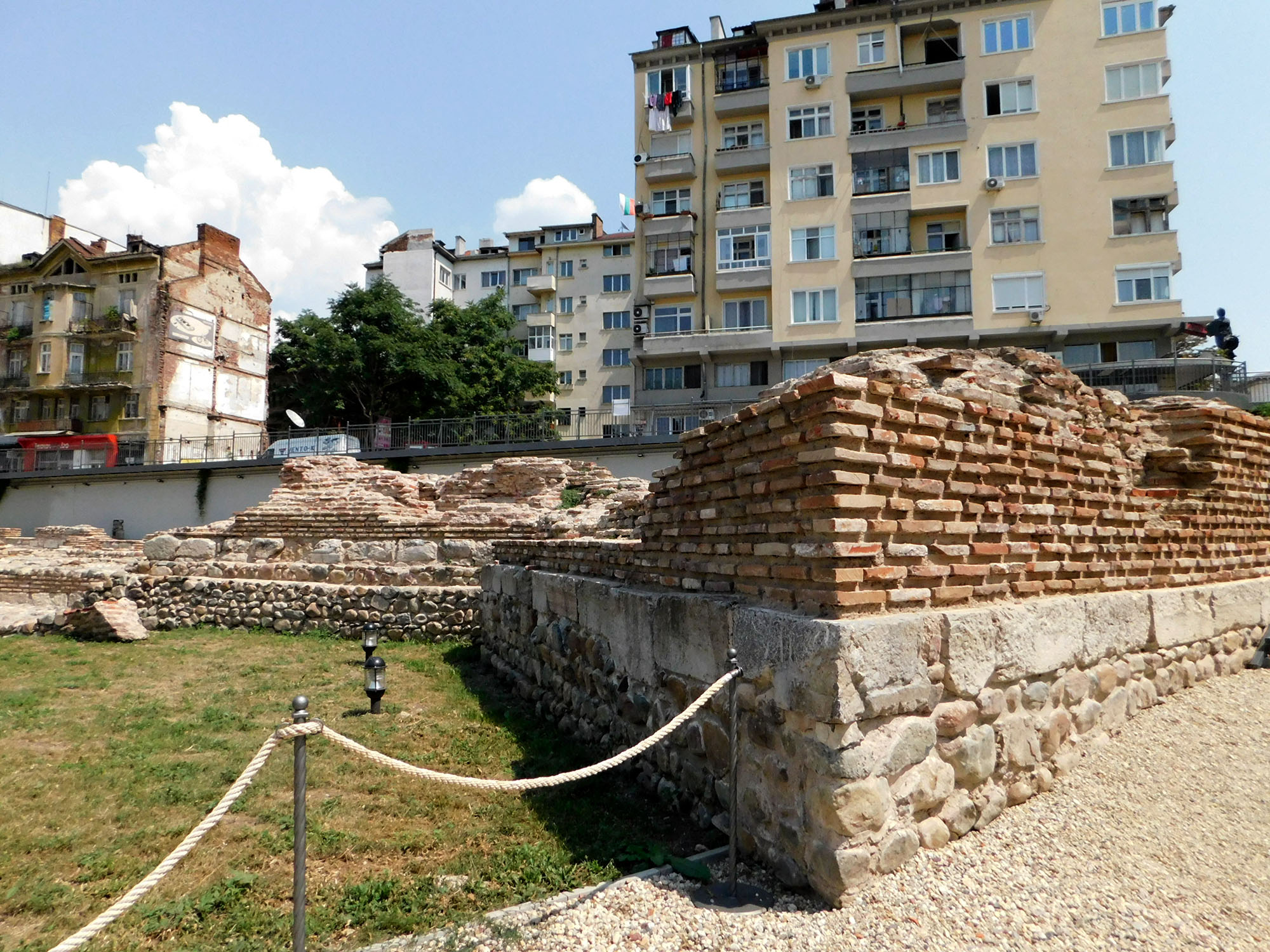 Western gate of ancient Serdica, Sofia, Bulgaria